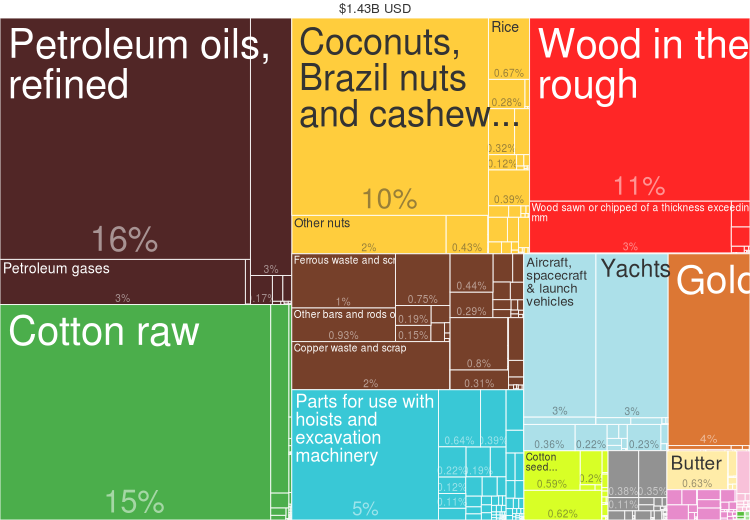 2014 Benin Products Export Treemap